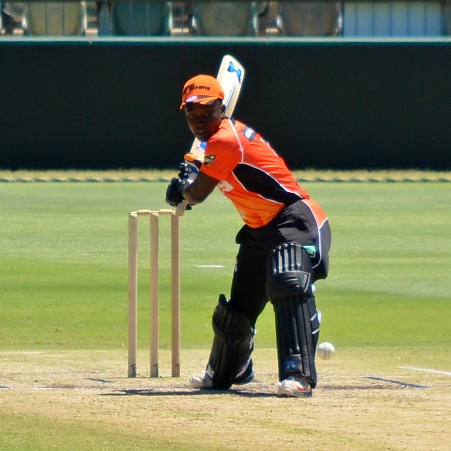 Deandra Dottin on her way to 28 for Perth Scorchers (WBBL) against Sydney Thunder (WBBL) at the WACA Ground, Perth, Australia.